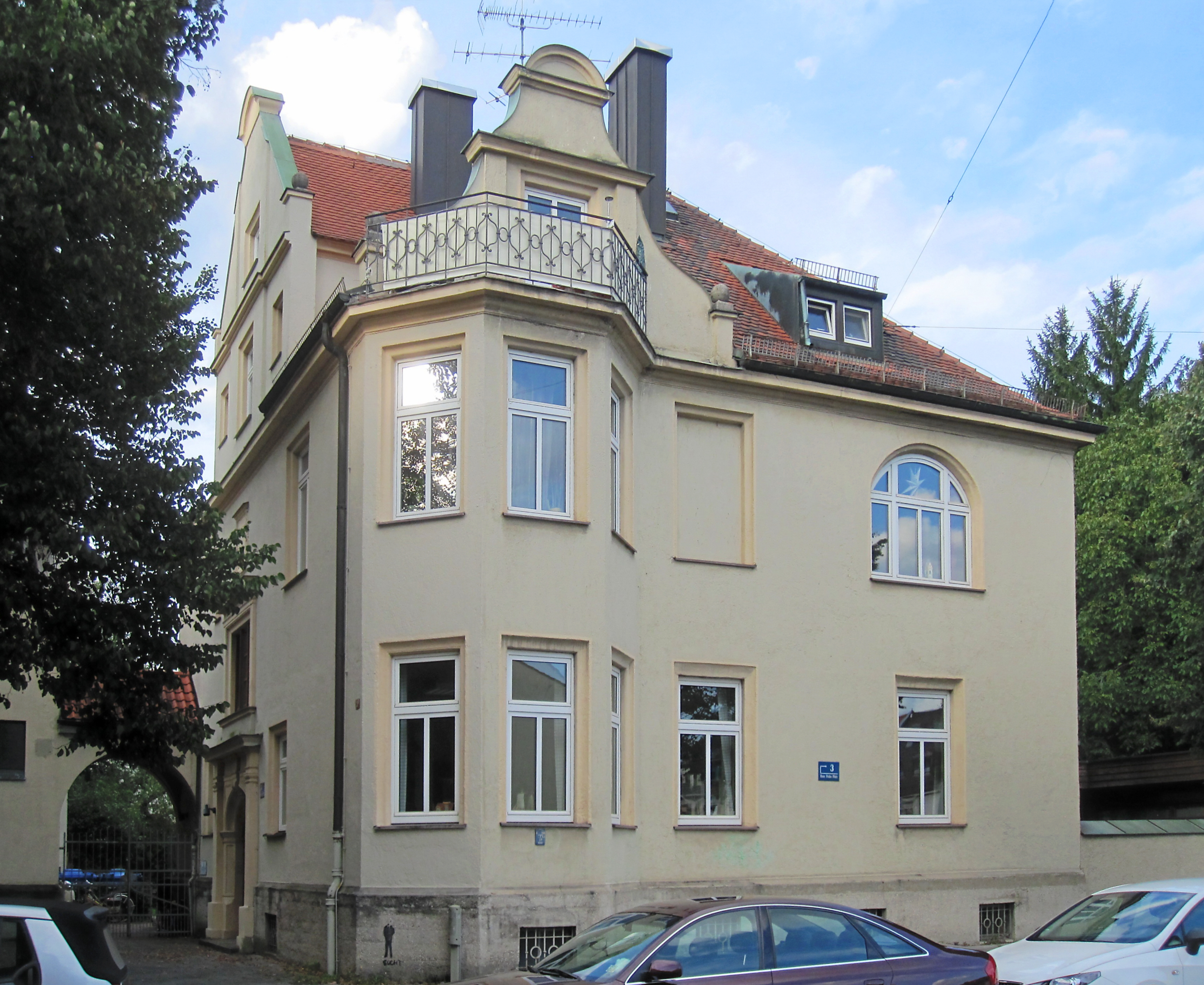 Monument at Dom-Pedro-Platz, München